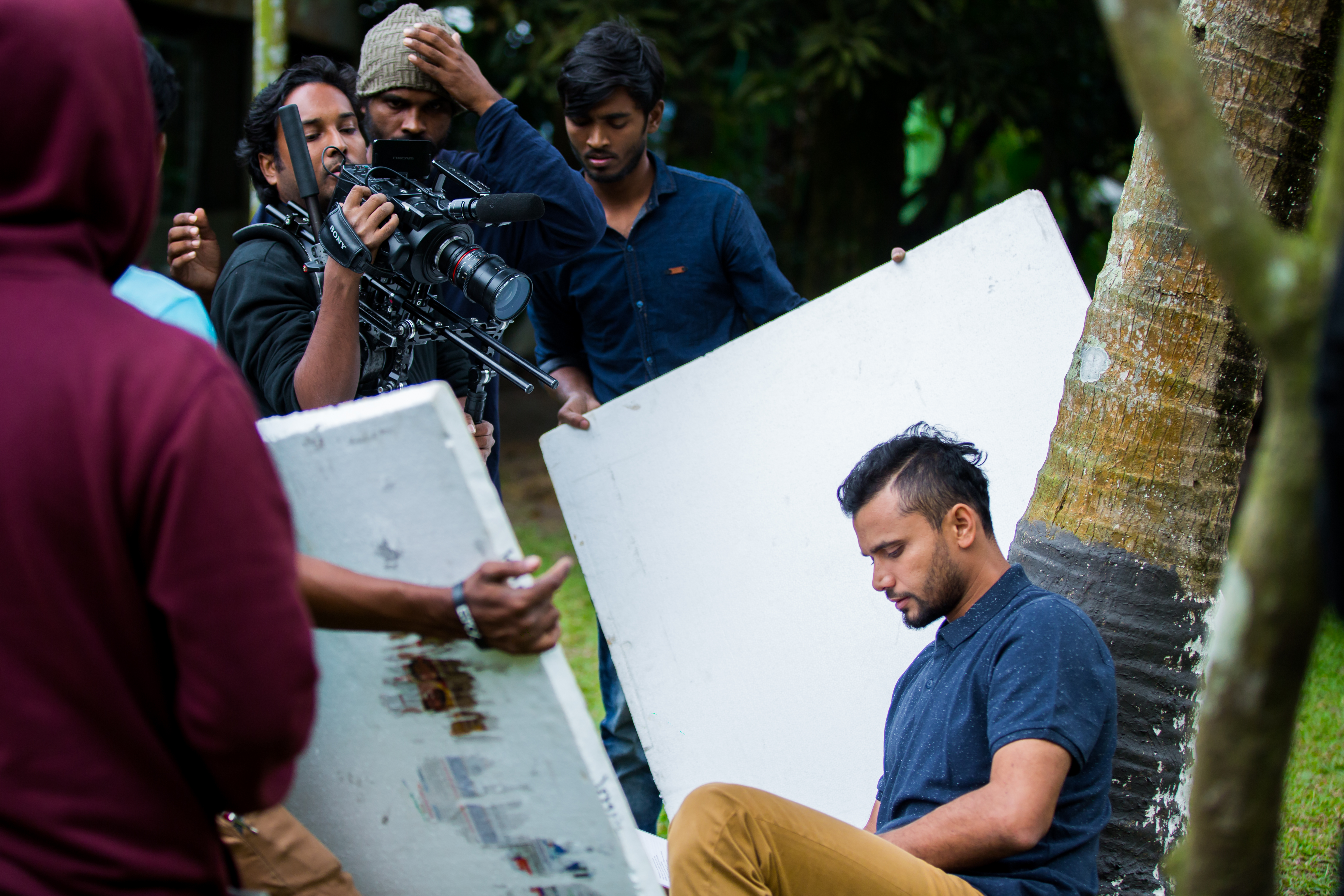 Mashrafe Bin Mortaza in a TVC Shooting of Mash Royal Park